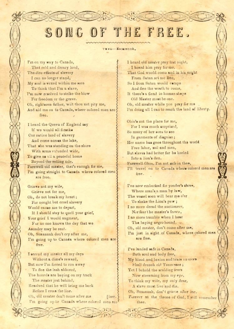 Page of lyrics to "Song of the Free," a song in eight verses describing a slave fleeing to Canada. Tune, Susannah -- [Canada?] : s.n., ca.1860. -- 1 broadside ; 31 cm x 22 cm. -- Entire work